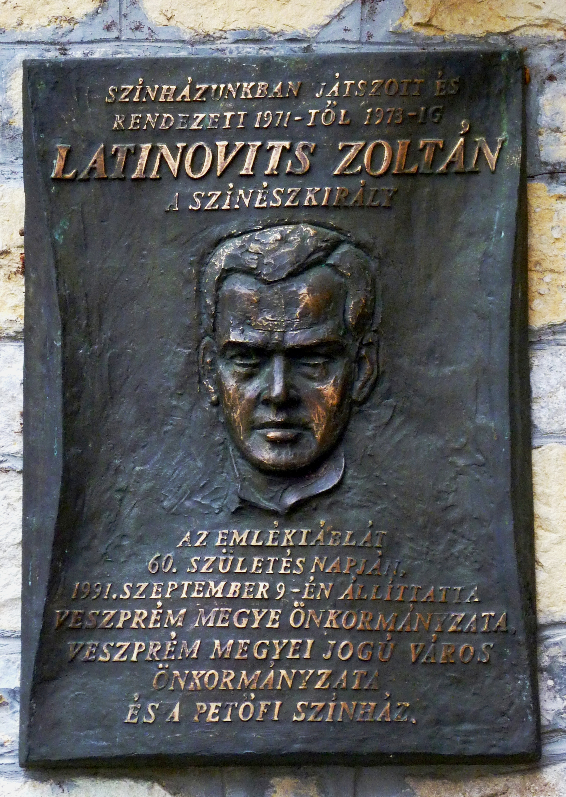 Zoltán Latinovits relief in Veszprém. Veszprém Petőfi Theatre. Óvári Ferenc Street No 2. (András Albert, 1991.)